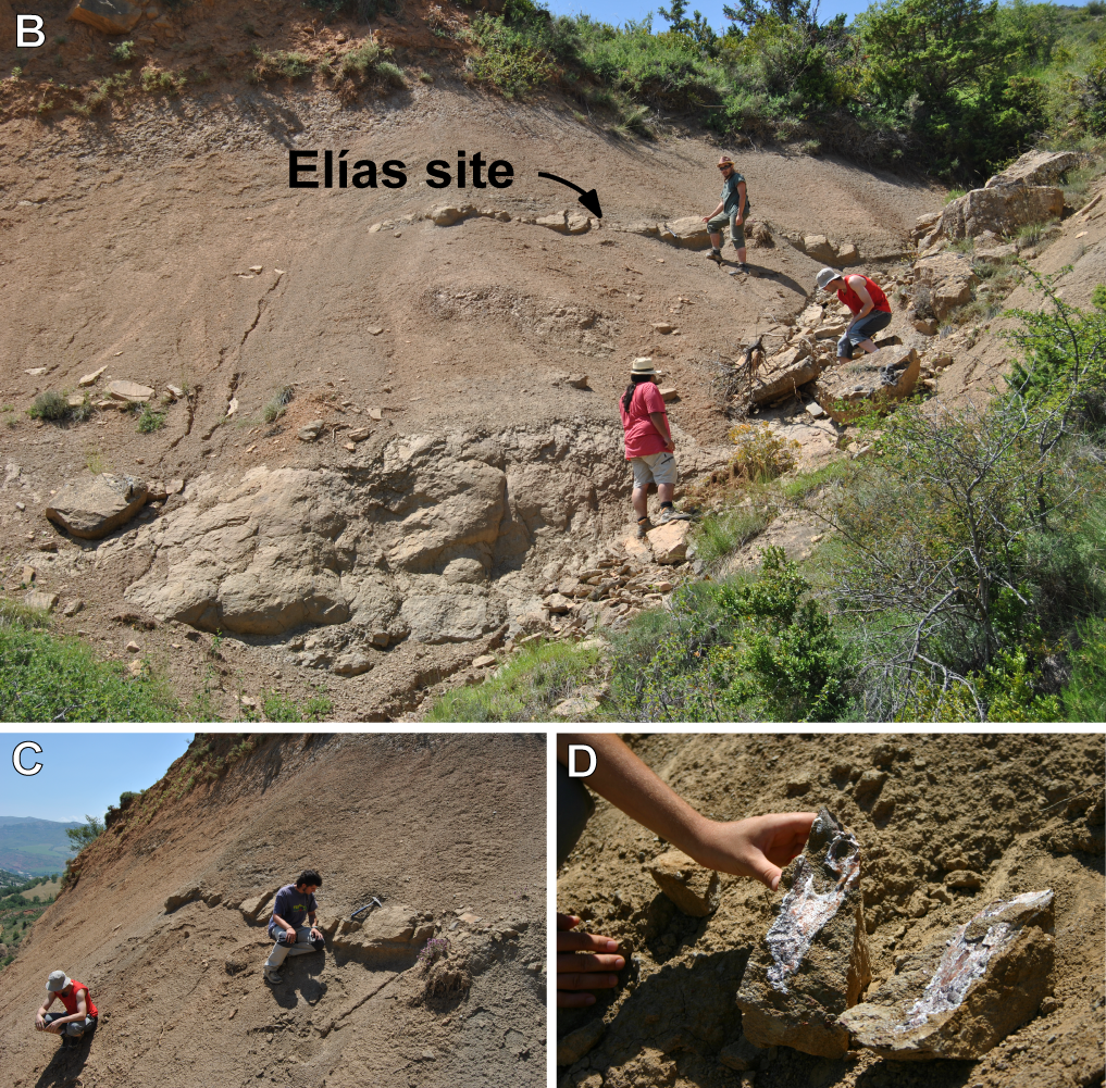 Location where Arenysuchus gascabadiolorum (ELI-1) was found. B, the Elías site in general view. C, sandstone layer and concrete place where the fossil was collected. D, ELI-1 skull when it was collected.